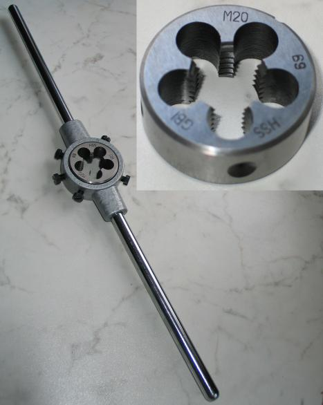 Die M20 and diewrench